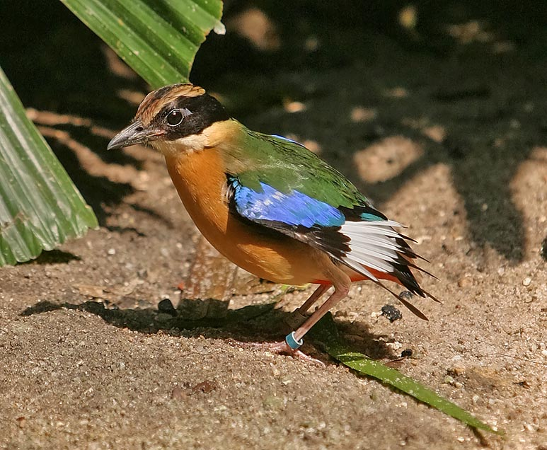 Pitta moluccensis - Blue-winged Pitta